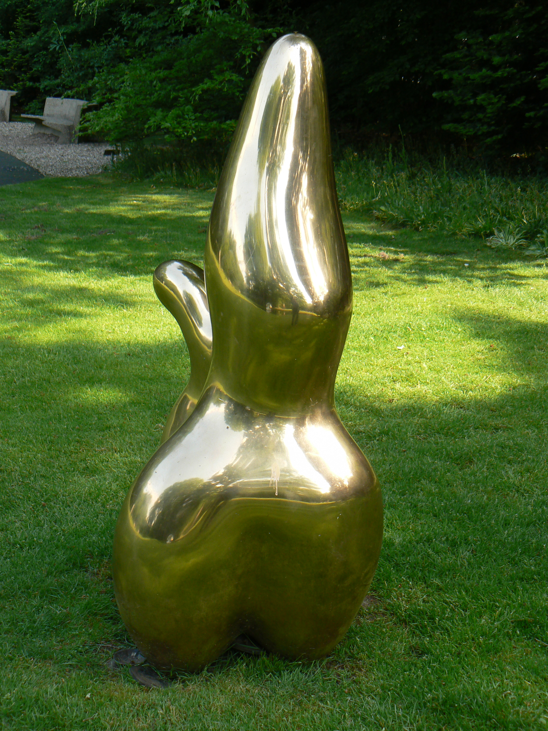 Sculpture Berger de nuages (1953) by Hans Arp in sculpturepark KMM/Kröller-Müller Museum - The Netherlands.